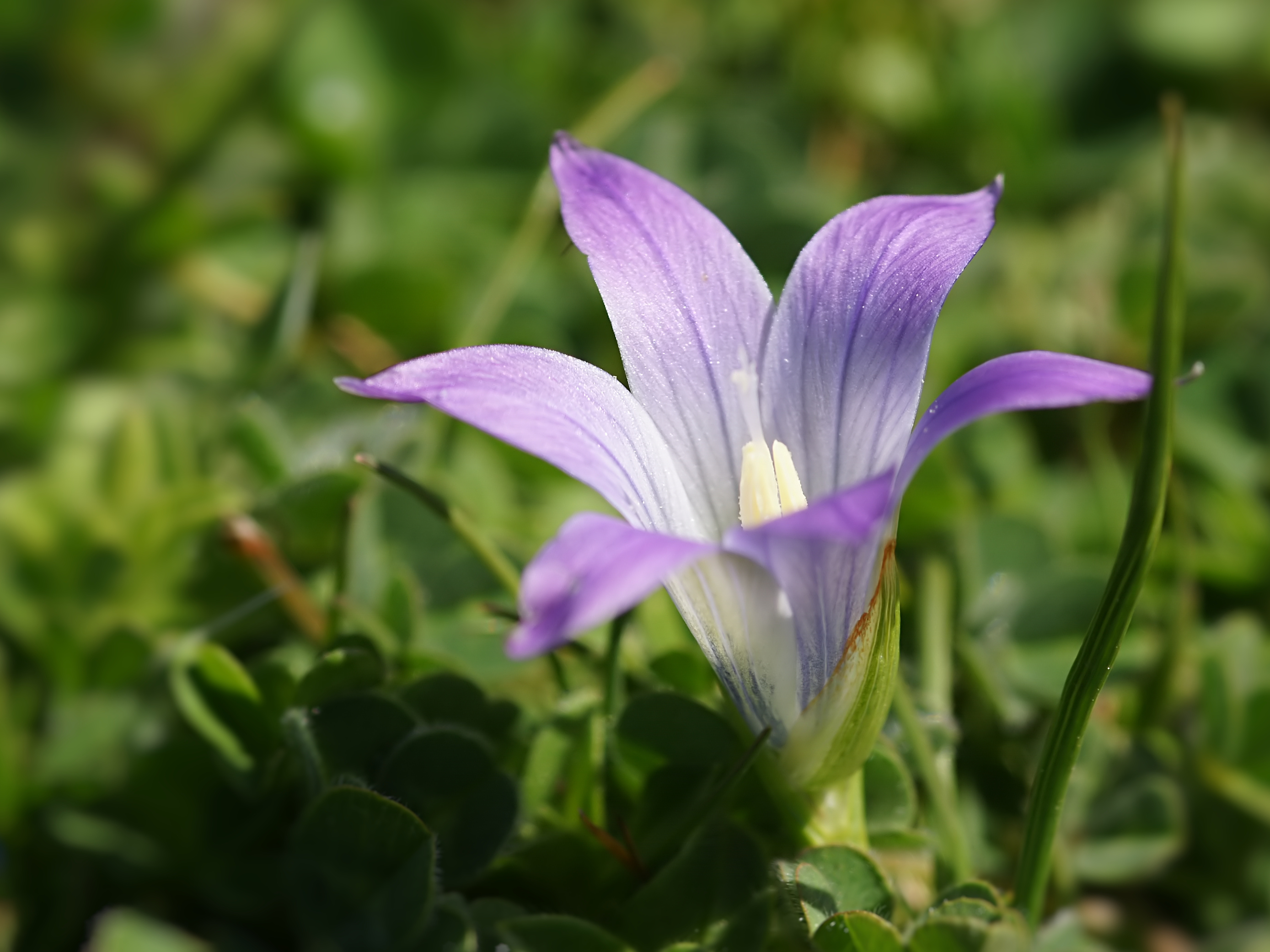 Ligurian Sand Crocus, Sardinia, Italy